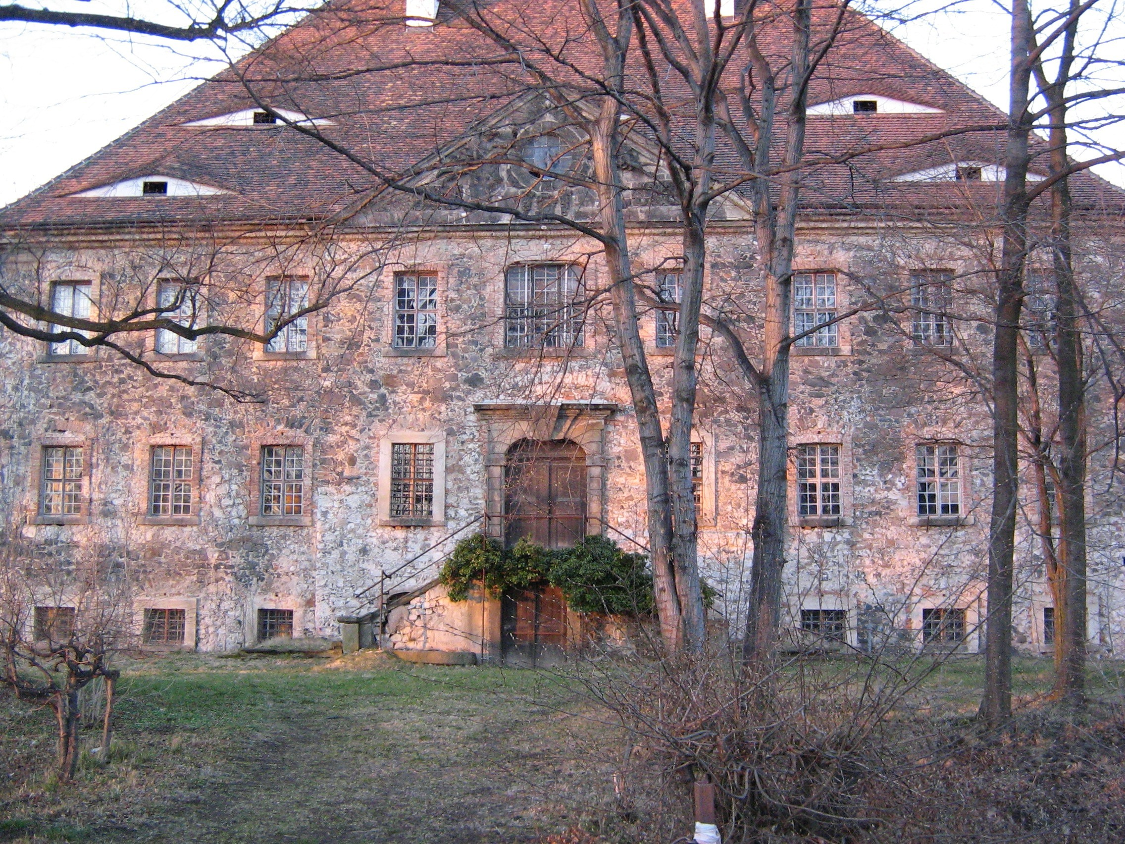 Manor house Tauchritz